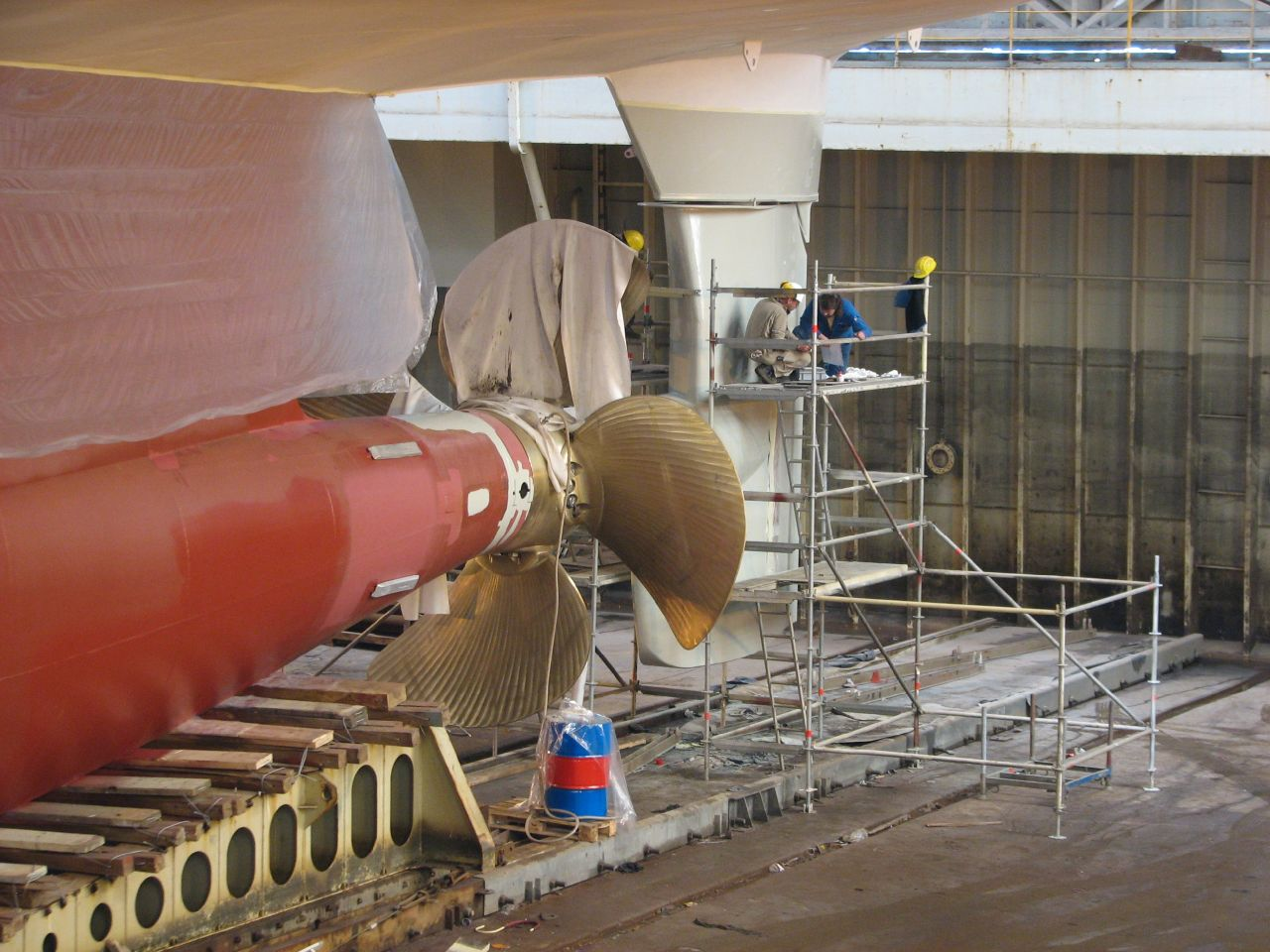 Propeller at Flensburger Schiffbau Gesellschaft ship building yard, Germany